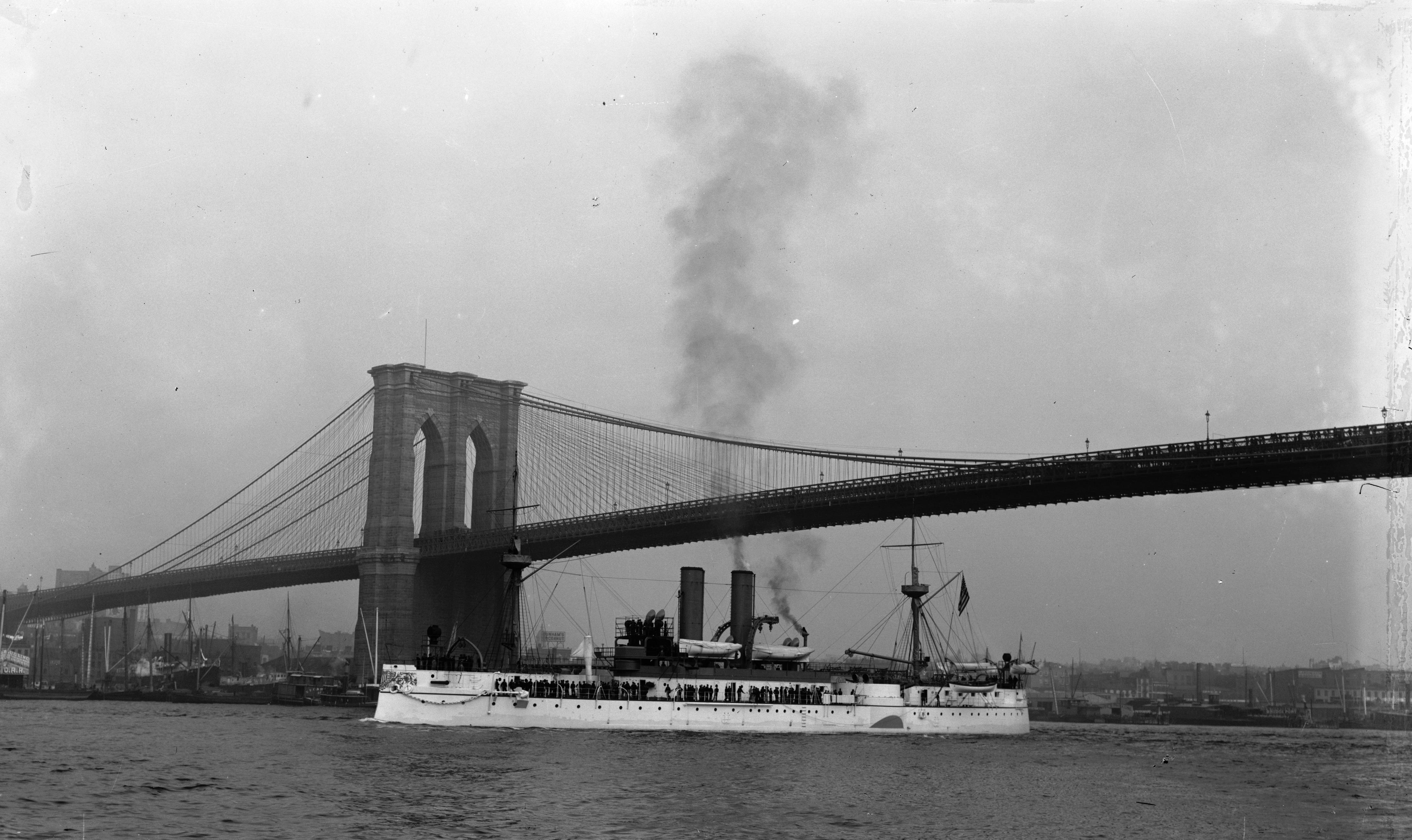 LC-DIG-DET-4a05501: U.S. Navy battleship, USS Maine, port view, passing under Brooklyn Bridge. Published by Detroit Publishing Company, 1895-98.